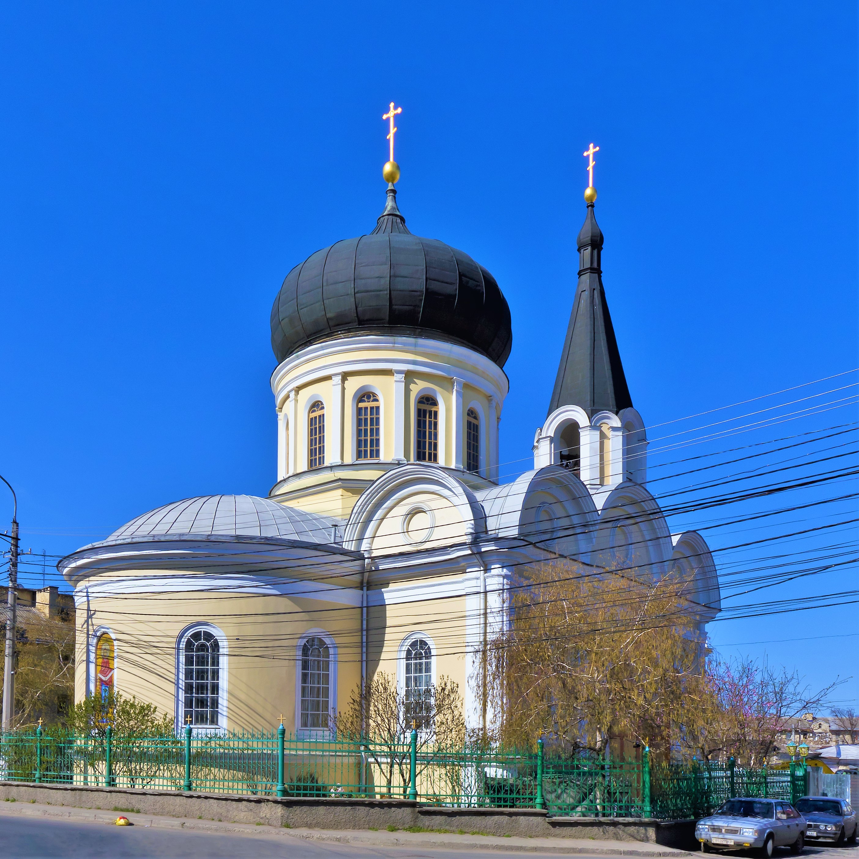 The Cathedral of Saints Peter and Paul in Simferopol, Crimean Peninsula.